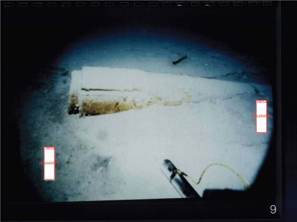 Inboard end of propulsion shaft of USS SCORPION laying on sea floor. Shows locking lip is missing.